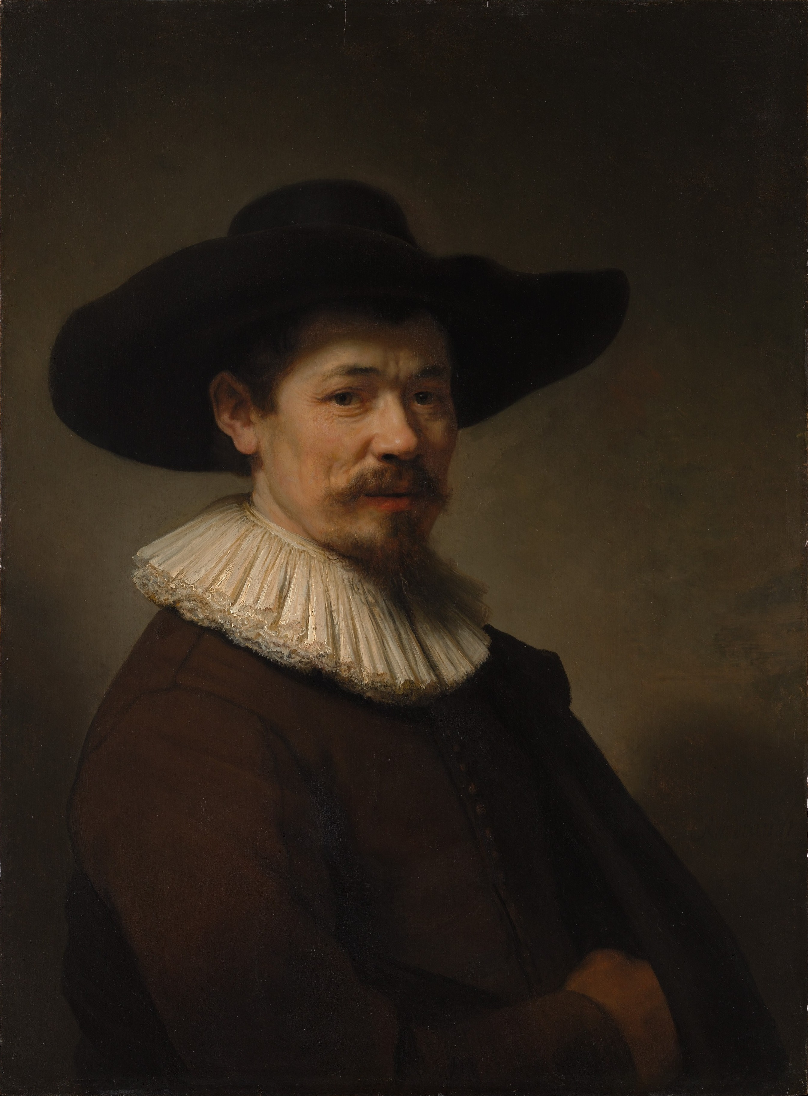 Portrait of Herman Doomer (circa 1595 date QS:P,+1595-00-00T00:00:00Z/9,P1480,Q5727902-1650), furniture maker. Pendant of File:Rembrandt - Portrait of Baartgen Martens Doomer - WGA19173.jpg.